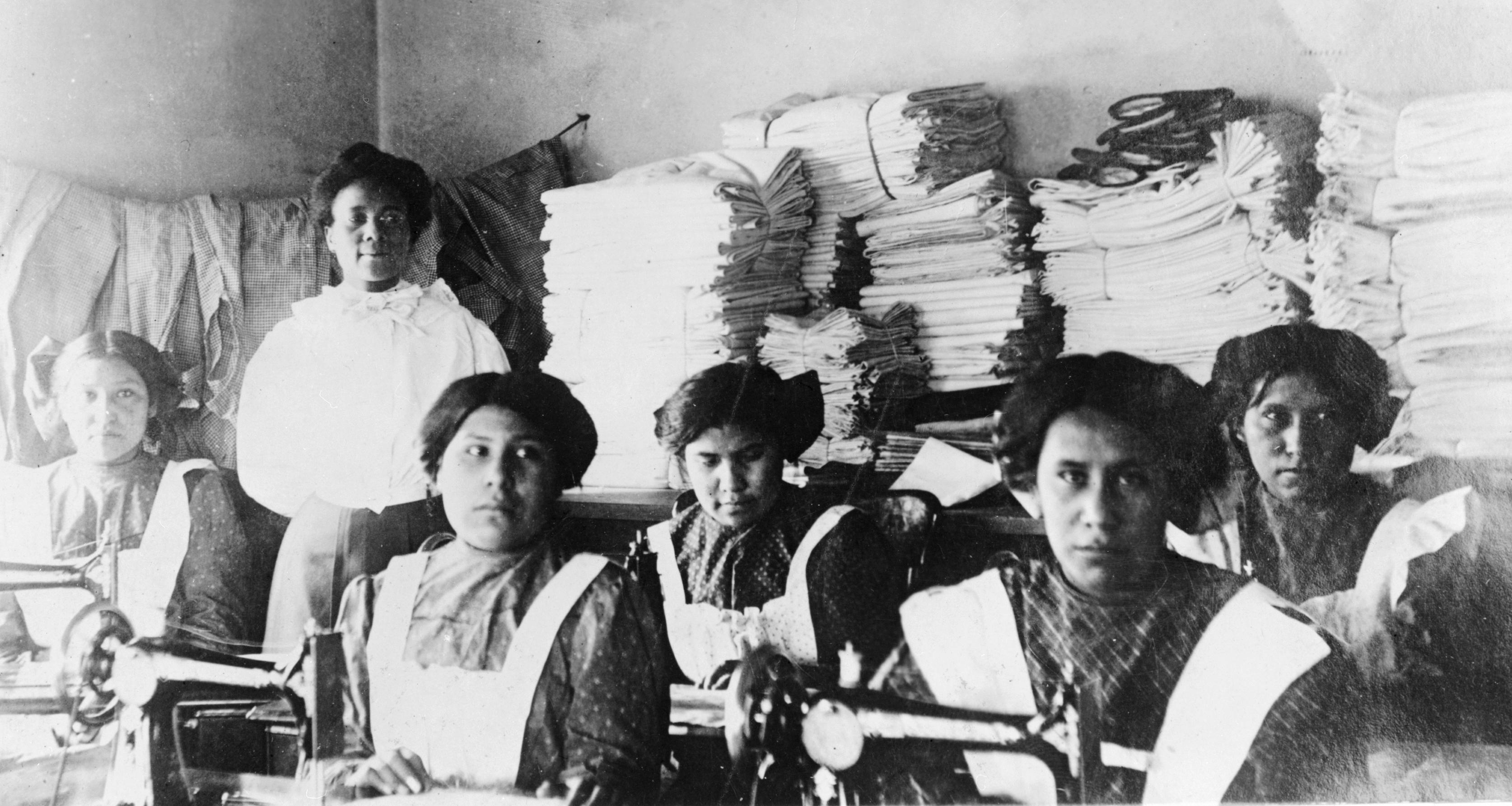 A sewing class in Bismarck Indian School, North Dakota.